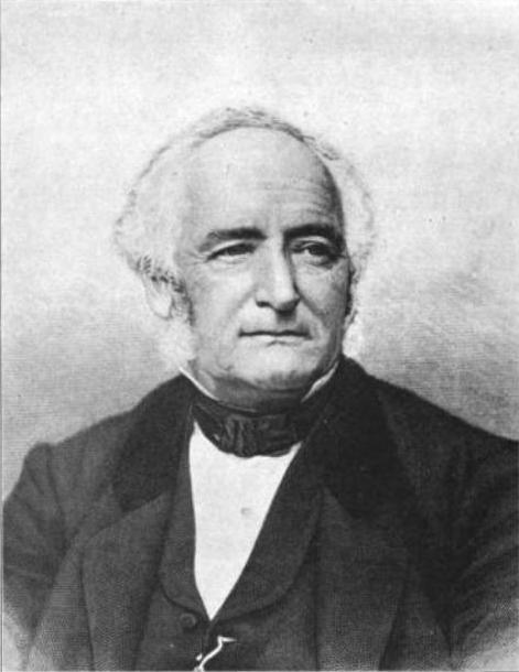 Samuel Cony (1811-1870), Governor of Maine